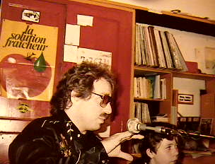 Jon Hammond broadcasting on French pirate radio station "Radio Tomate" 1981 Paris France